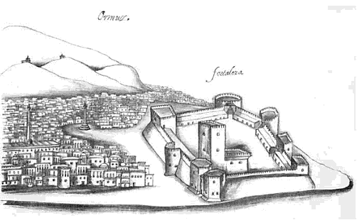 The fort of Hormuz as seen on the mid sixteenth century